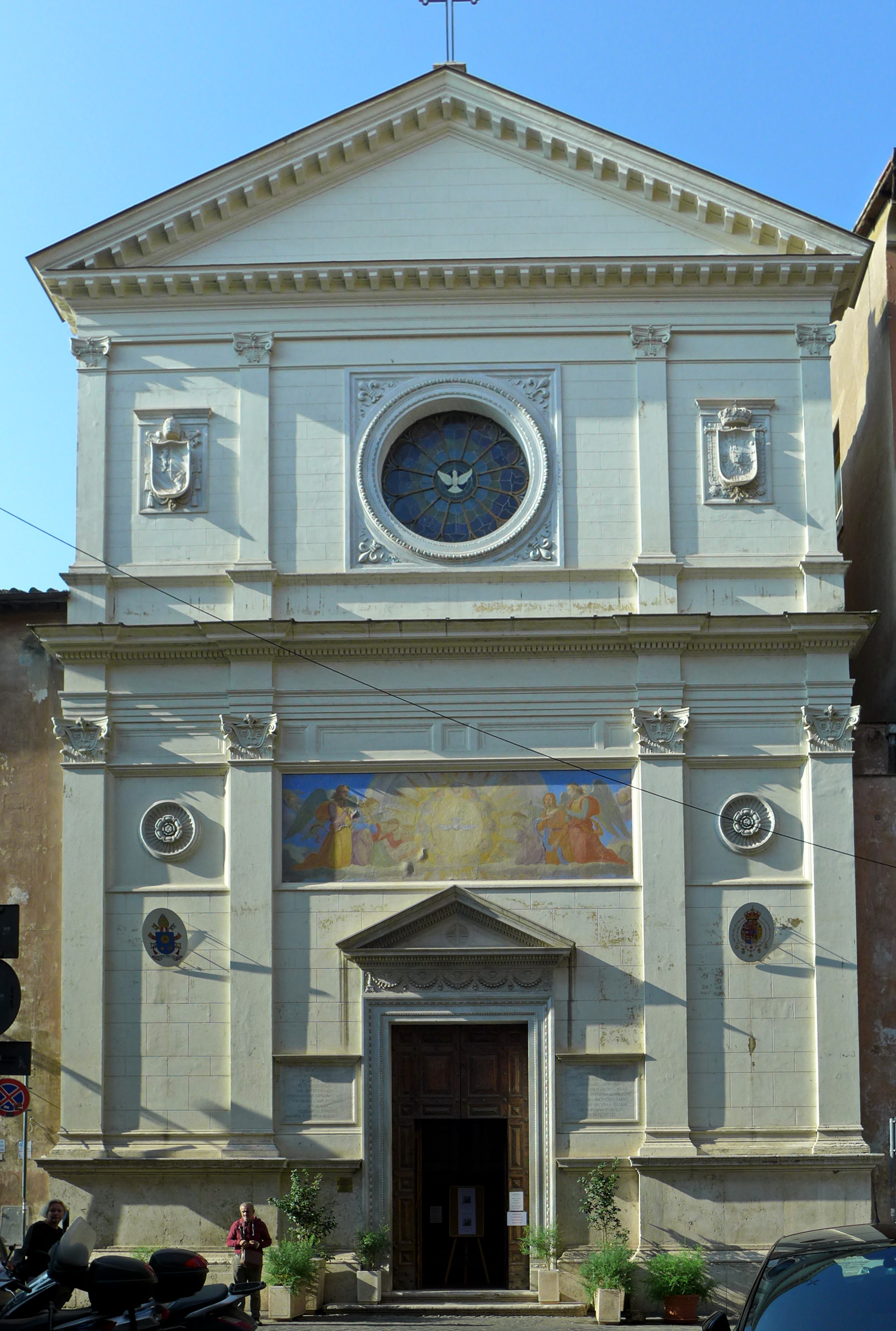 Via Giulia (Rome); Santo Spirito dei Napoletani